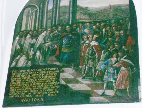 Jan III Sobieski, king of Poland, in Jasna Góra Monastery before his departure with soldiers for helping Vienna (in 1683), picture from Knightly Hall of Jasna Góra Monastery